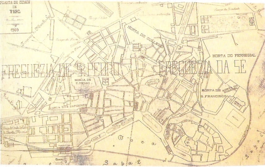 Plan of the city of Faro, in Portugal, in 1909. On the bottom is the train station, and the railway that goes to Vila Real de Santo António. This image was originally published on the work "Faro, Evolução Urbana e Património".